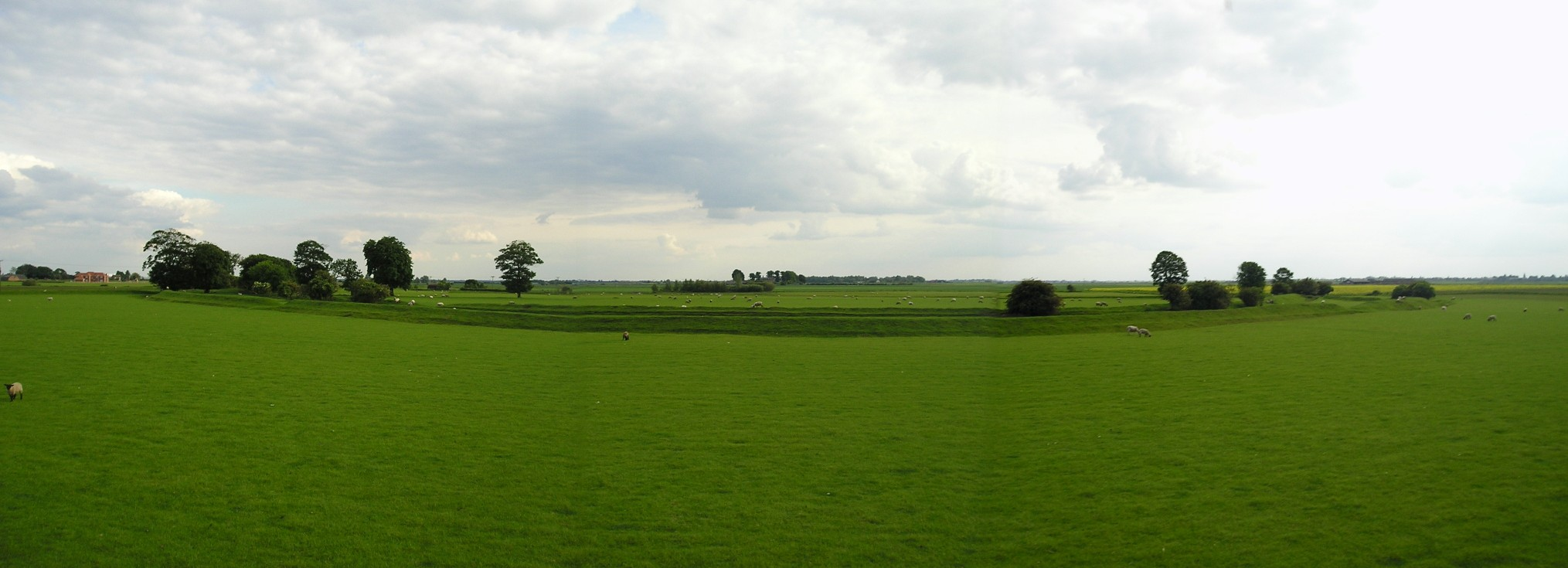 Panorama of Stonea Iron Age fort in Cambridgeshire